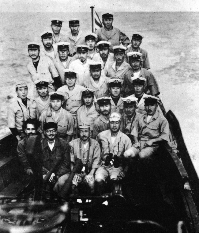 The crew of the Imperial Japanese Navy submarine I-29 before disembarking in Sabang, Sumatra, then under Japanese occupation, on 6 May 1943, Earlier, the submarine had rendezvoused with the Kriegsmarine German submarine U-180, 300 sm southeast of Madagascar in the Indian Ocean. During the rendezvous, Indian nationalist Subhas Chandra Bose, shown here sitting on the left in the front row (with glasses and hat), was transferred.